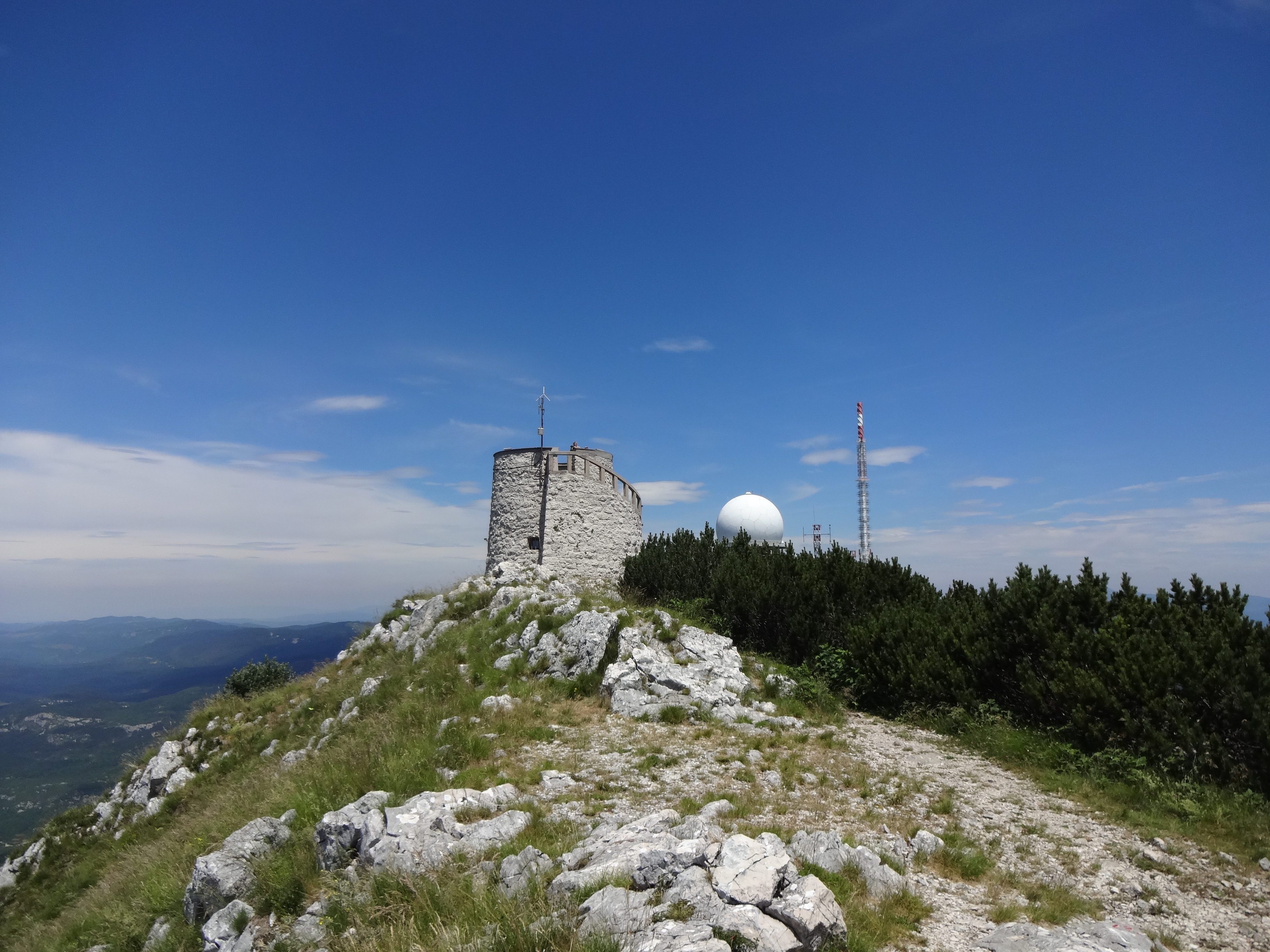 Top of the Vojak (mountain)